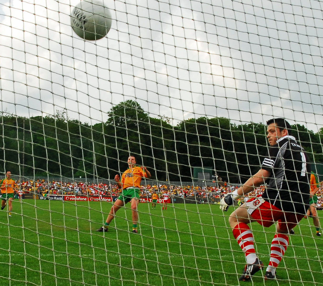 Donegal forward Michael Murphy scores a penalty against Derry goalkeeper John Deighan in the 2008 Ulster Senior Football Championship.